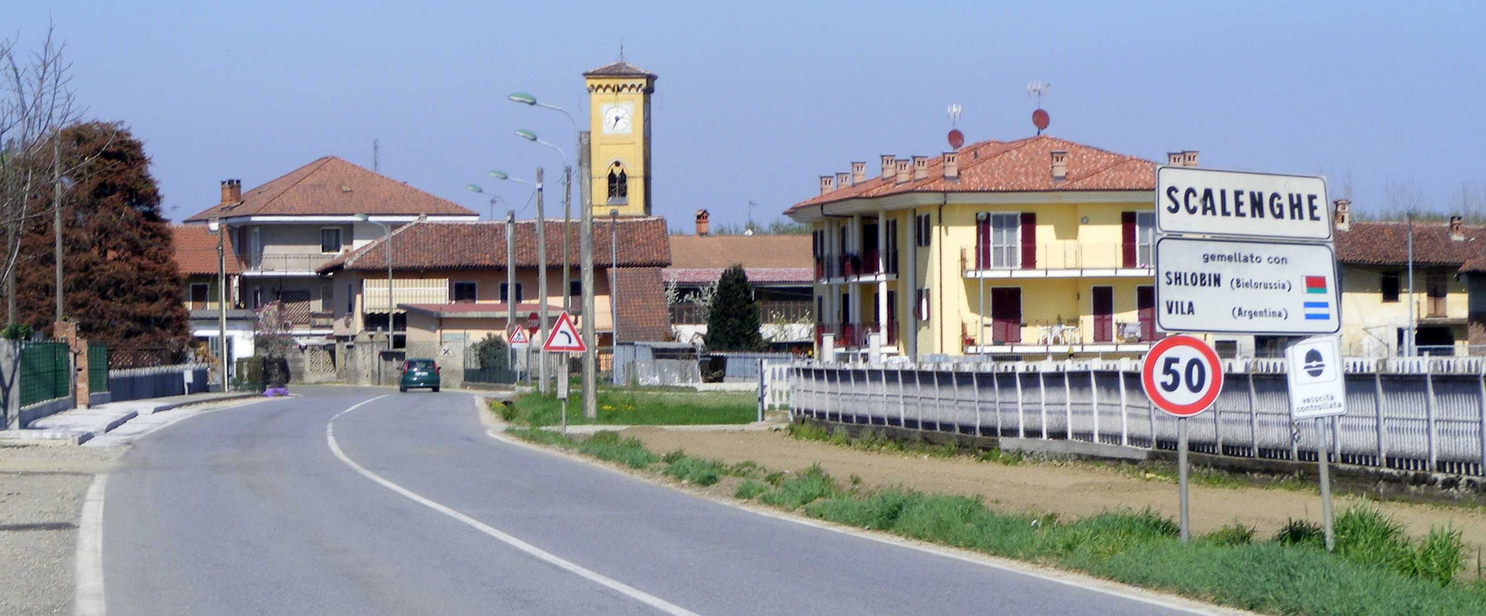 Scalenghe (TO, Italy): panorama